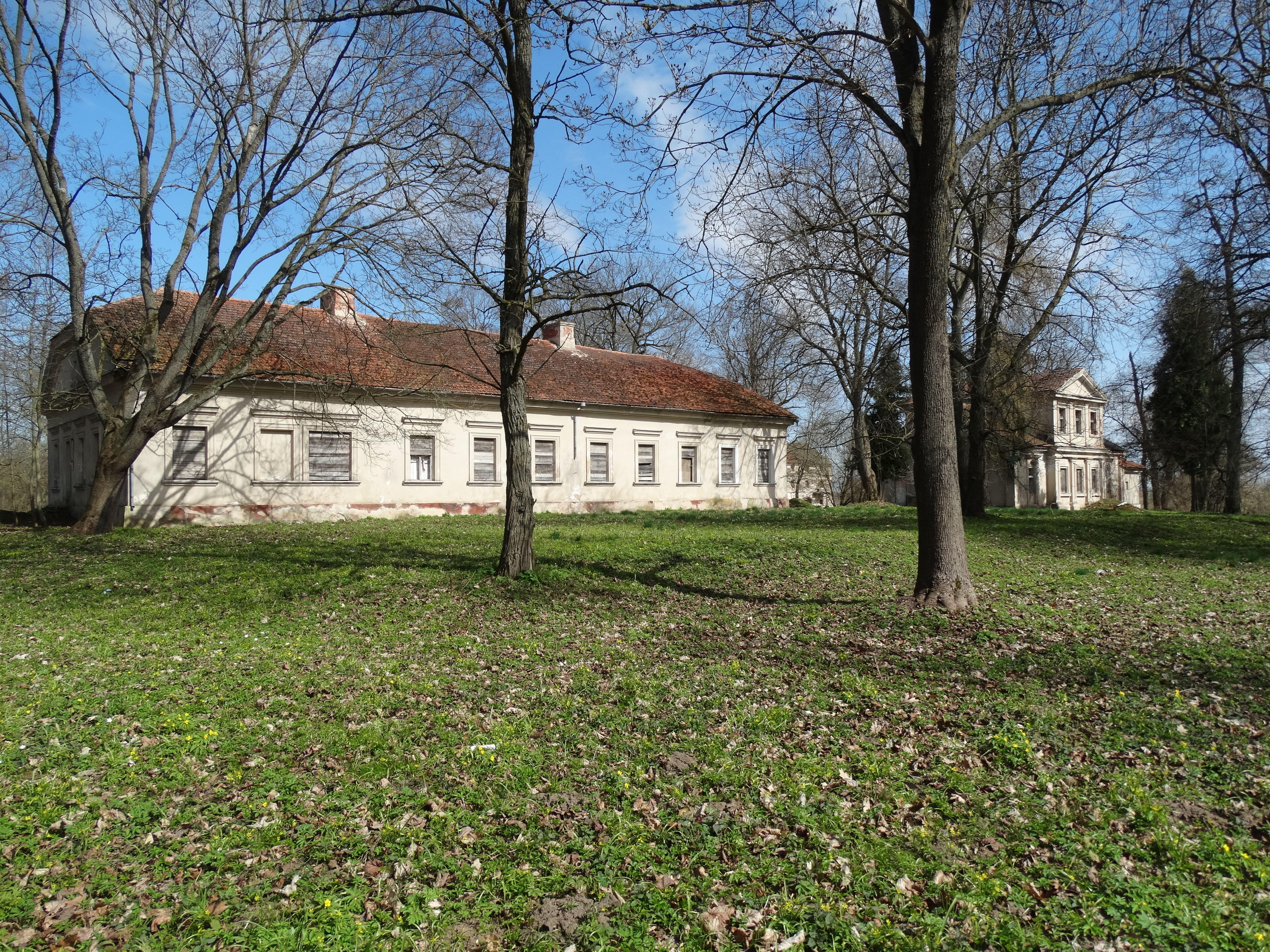 Manor, Pavermenys, Kėdainiai District, Lithuania